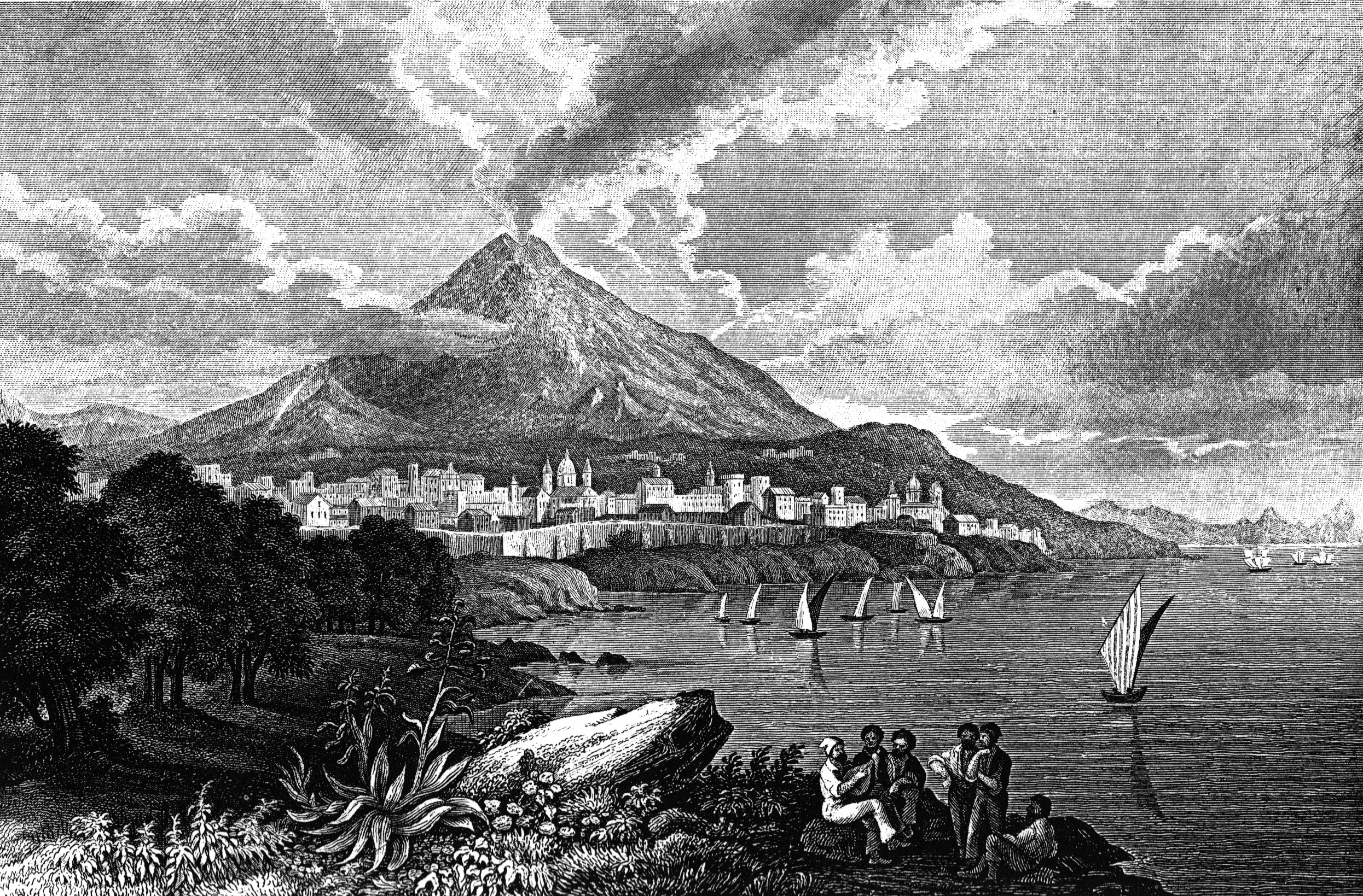 The Mt. Etna around 1840. Drawing by C. Reiss, engraving by I.G. Martini.